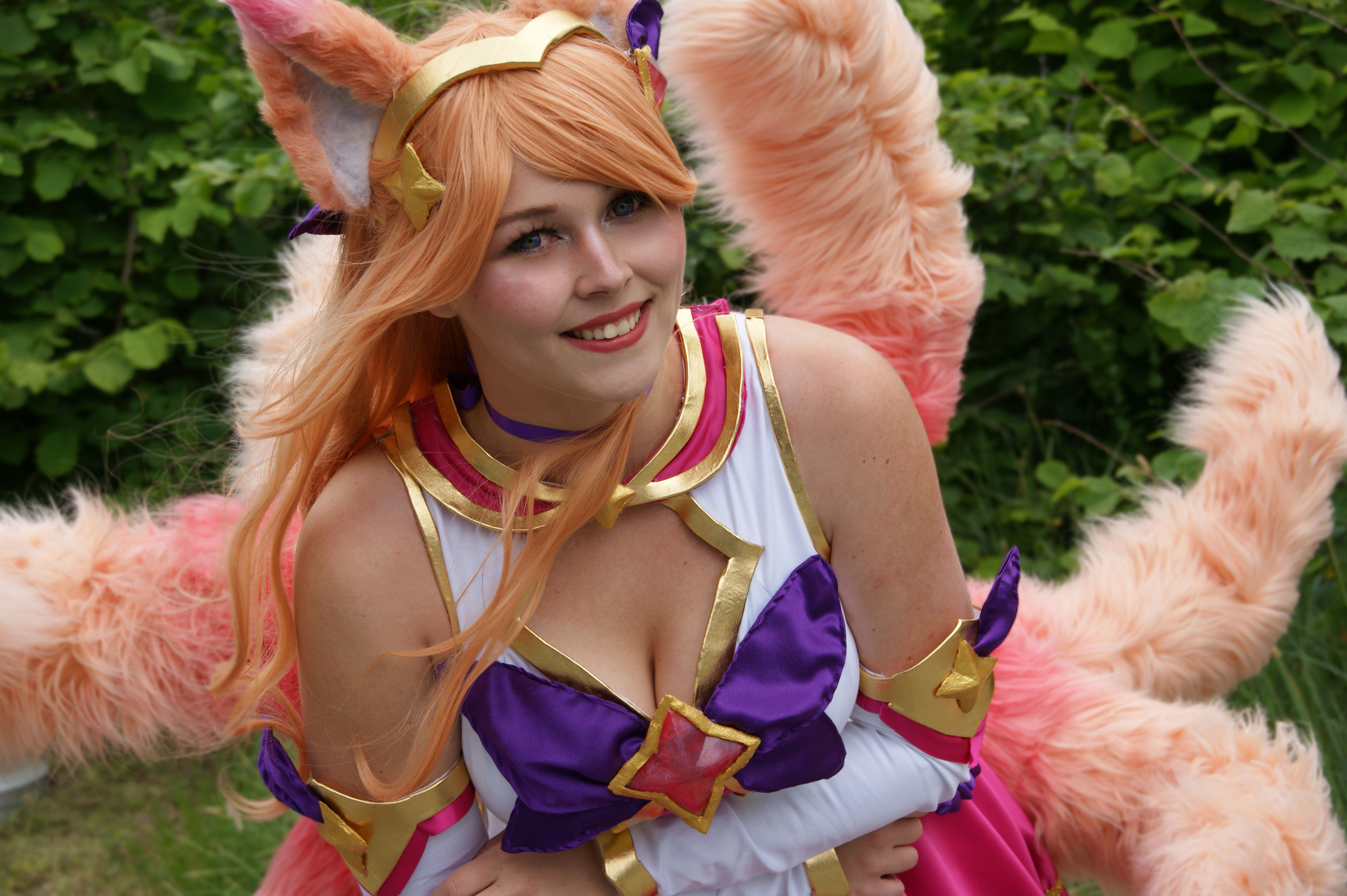 A Dutch Cosplayer, Adia Cosplay, showing off her self-made Star Guardian Ahri costume. Star Guardian Ahri is a character from the PC-videogame 'League of Legends'. This photo was taken at the World Forum-venue, during Animecon 2018, an event in the Hague, with many Cosplayers.